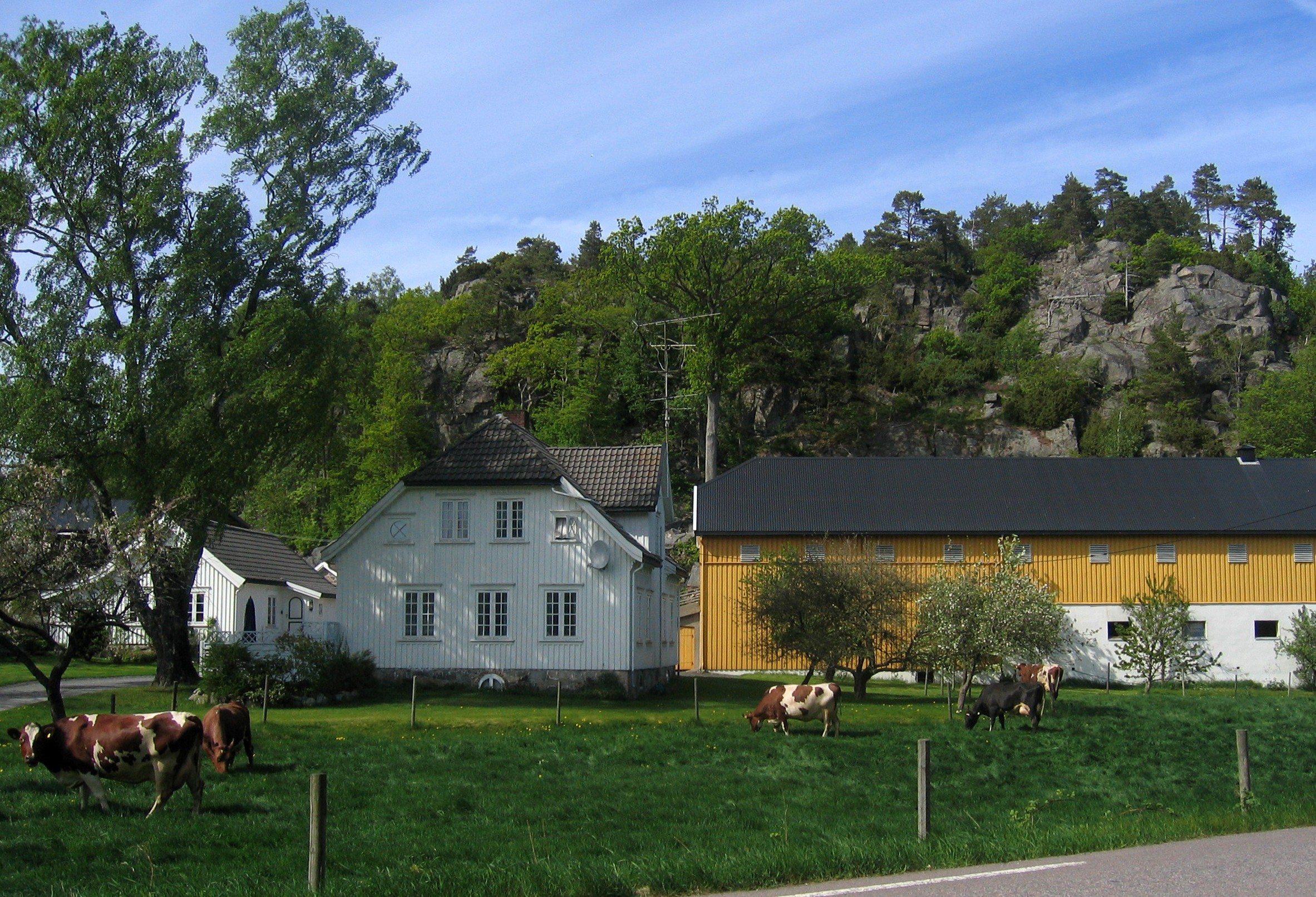 Mountain Herkelaas at Tjøme, Norway. The farm Skauen.